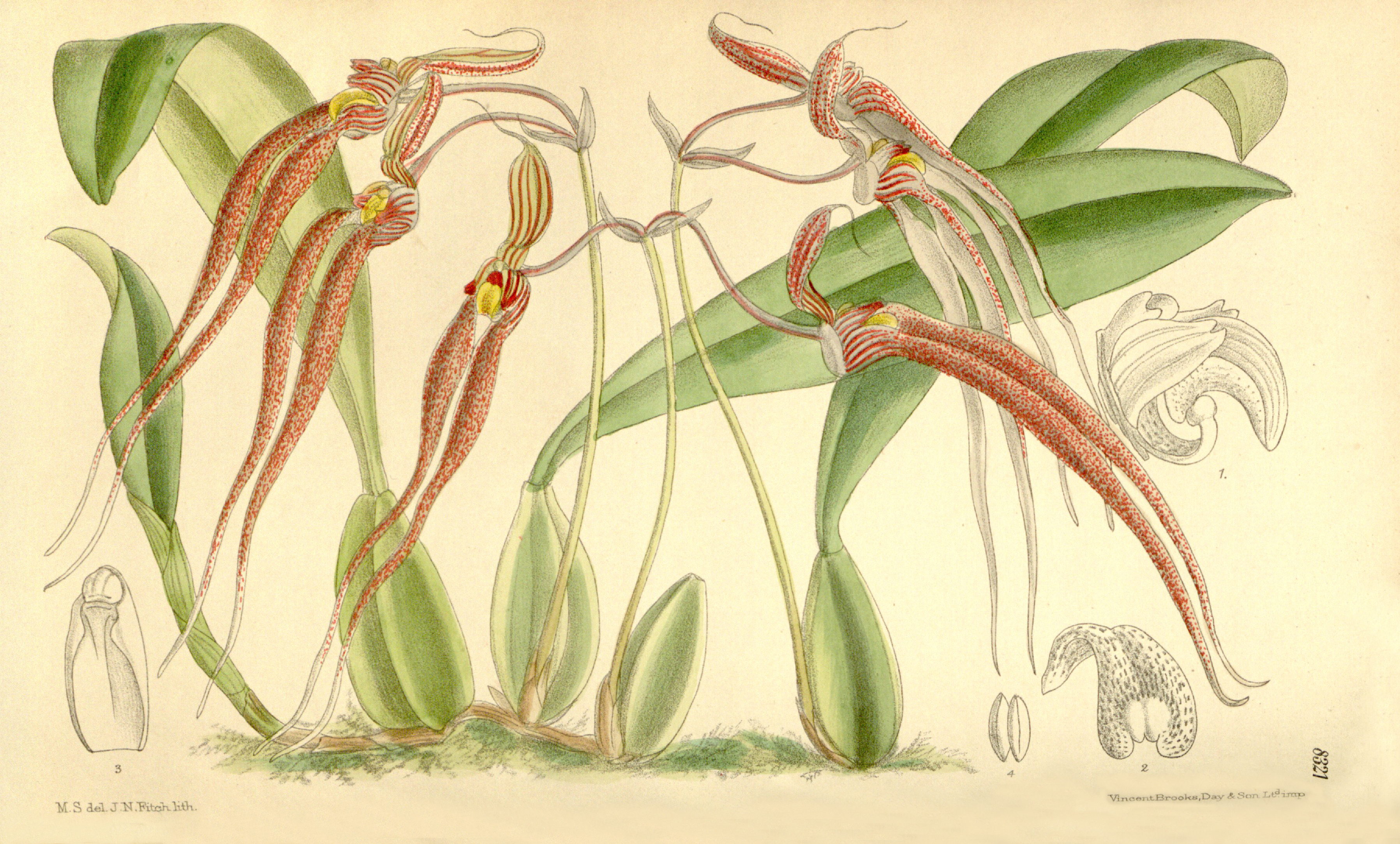 Illustration of Bulbophyllum biflorum (as syn. Cirrhopetalum biflorum)